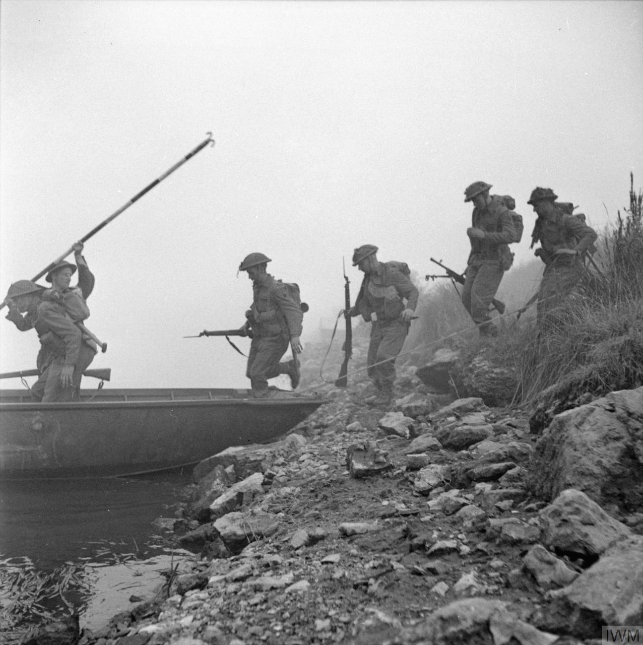 The British Army in North-west Europe 1944-45 Men of the 4th Wiltshire Regiment climb into an assault boat to cross the Seine at Vernon, 25 August 1944.